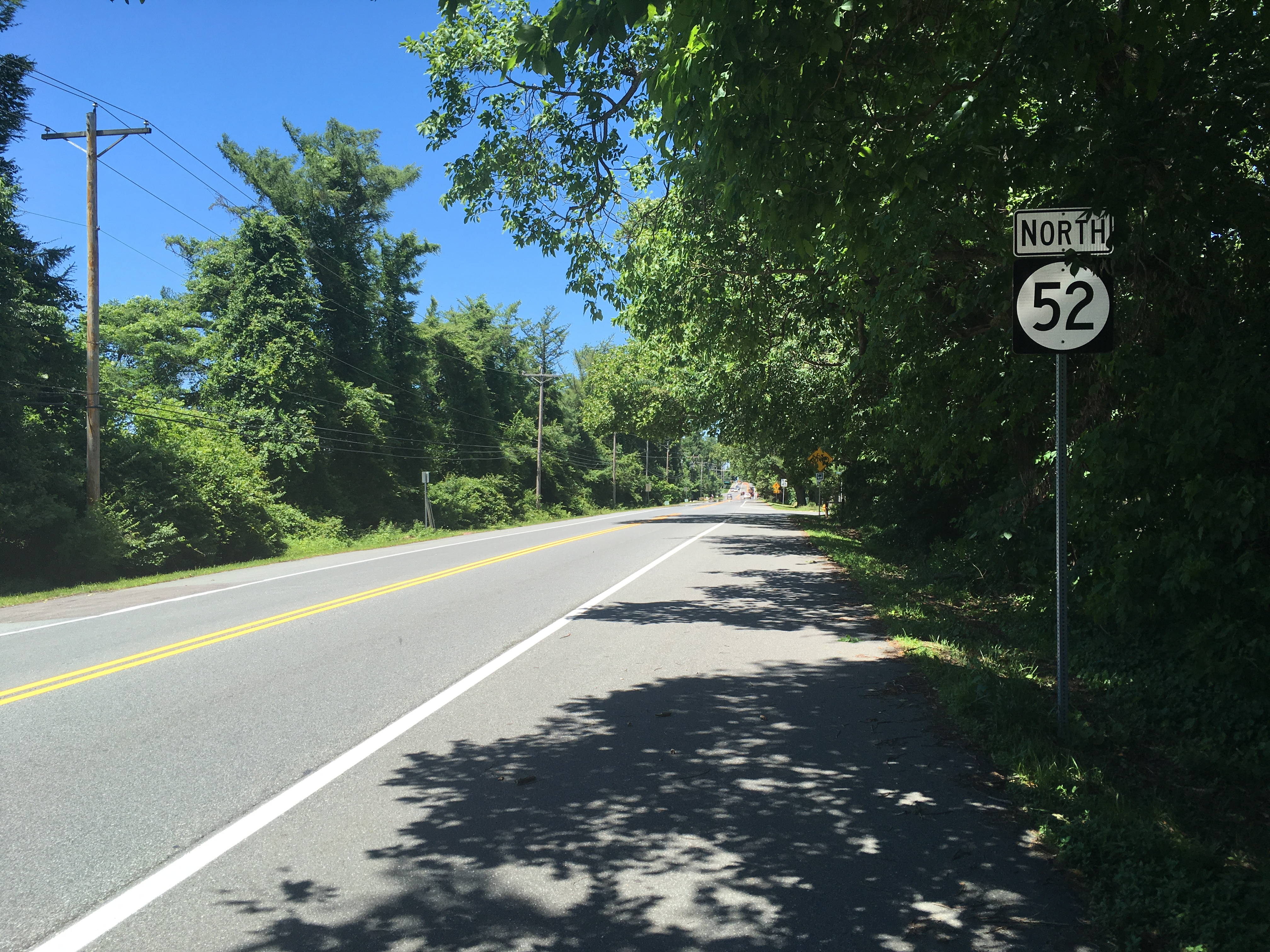 Northbound Delaware Route 52 (Kennett Pike) approaching the intersection with Sunnyside Road near Greenville, Delaware